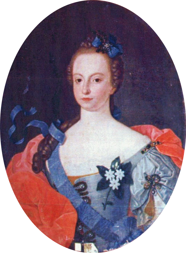 Portrait of Maria Ana of Braganza, Infanta of Portugal